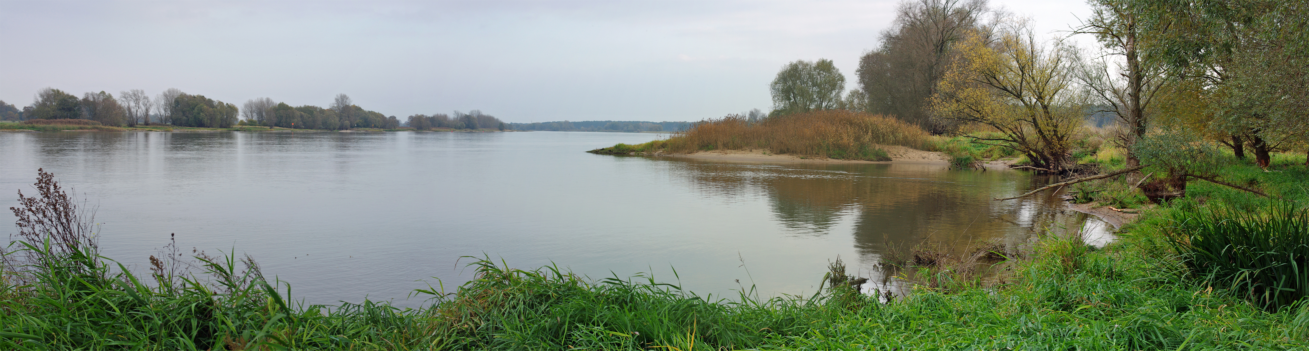 Autumnal view upstream on relatively natural sections of the lower middle Elbe river (below the village of Gorleben) in the district Lüchow-Dannenberg. The shore right in the picture is one of Lower Saxony, Brandenburg to the left in the background.